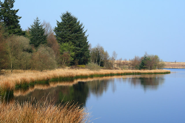 Fannyside Loch, Cumbernauld Palacerigg Country Park just outside Cumbernauld has many great walks through the surrounding woodland and around the two lochs. This view is near the west end of the larger loch.